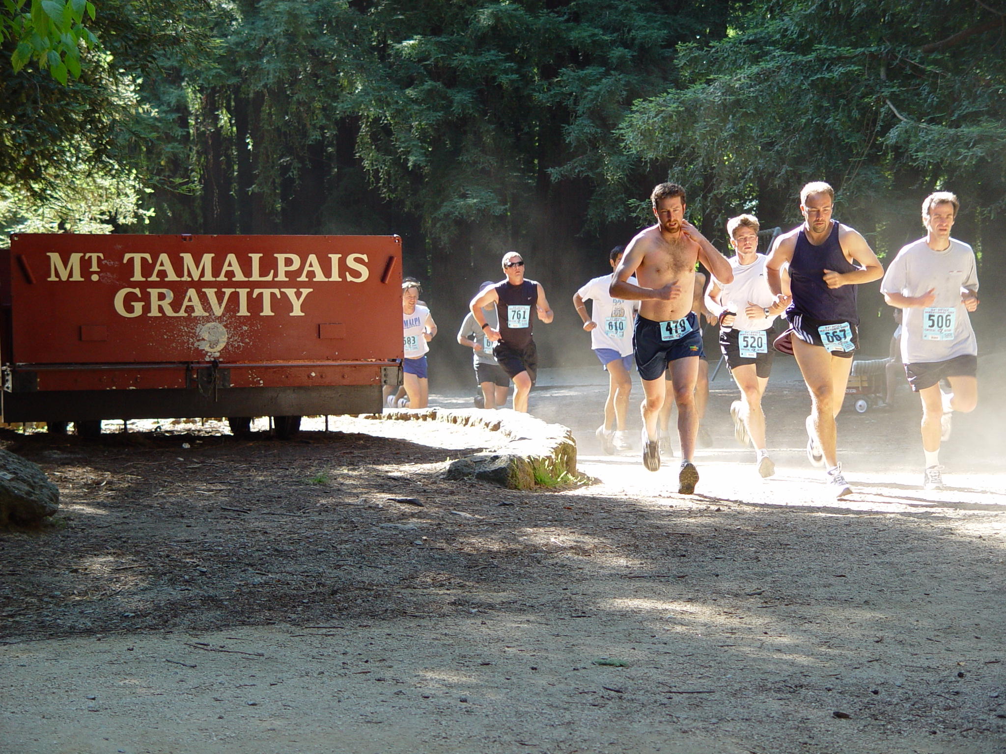 Runners in the 2004 Dipsea Race pass a Gravity Car in Mill Valley's Old Mill Park. This annual foot race in Mill Valley and on Mount Tamalpais, in Northern California, occurs in June.